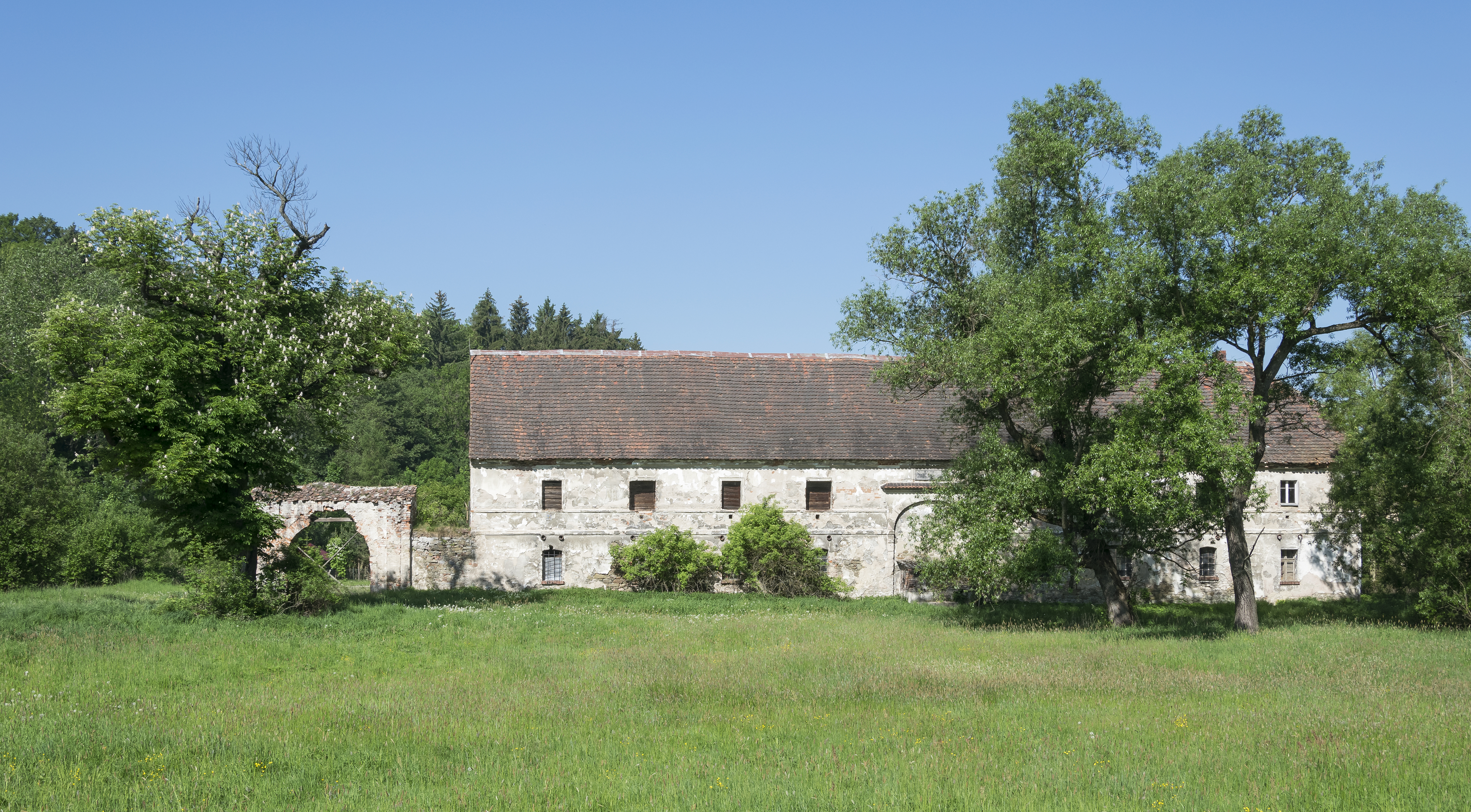 Cowhouse in Roztoki